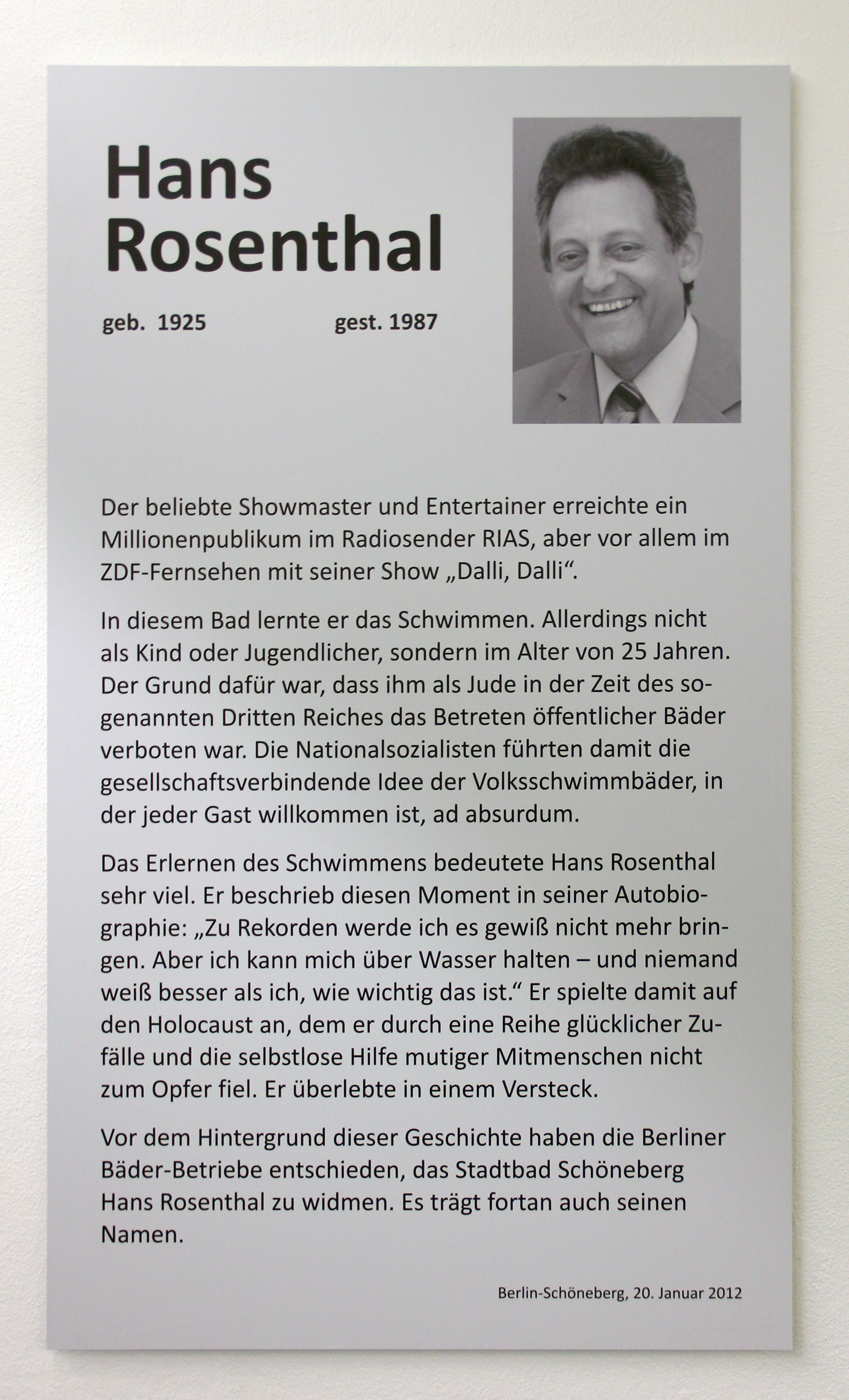 Memorial plaque, Hans Rosenthal, Hauptstraße 36, Berlin-Schöneberg, Germany